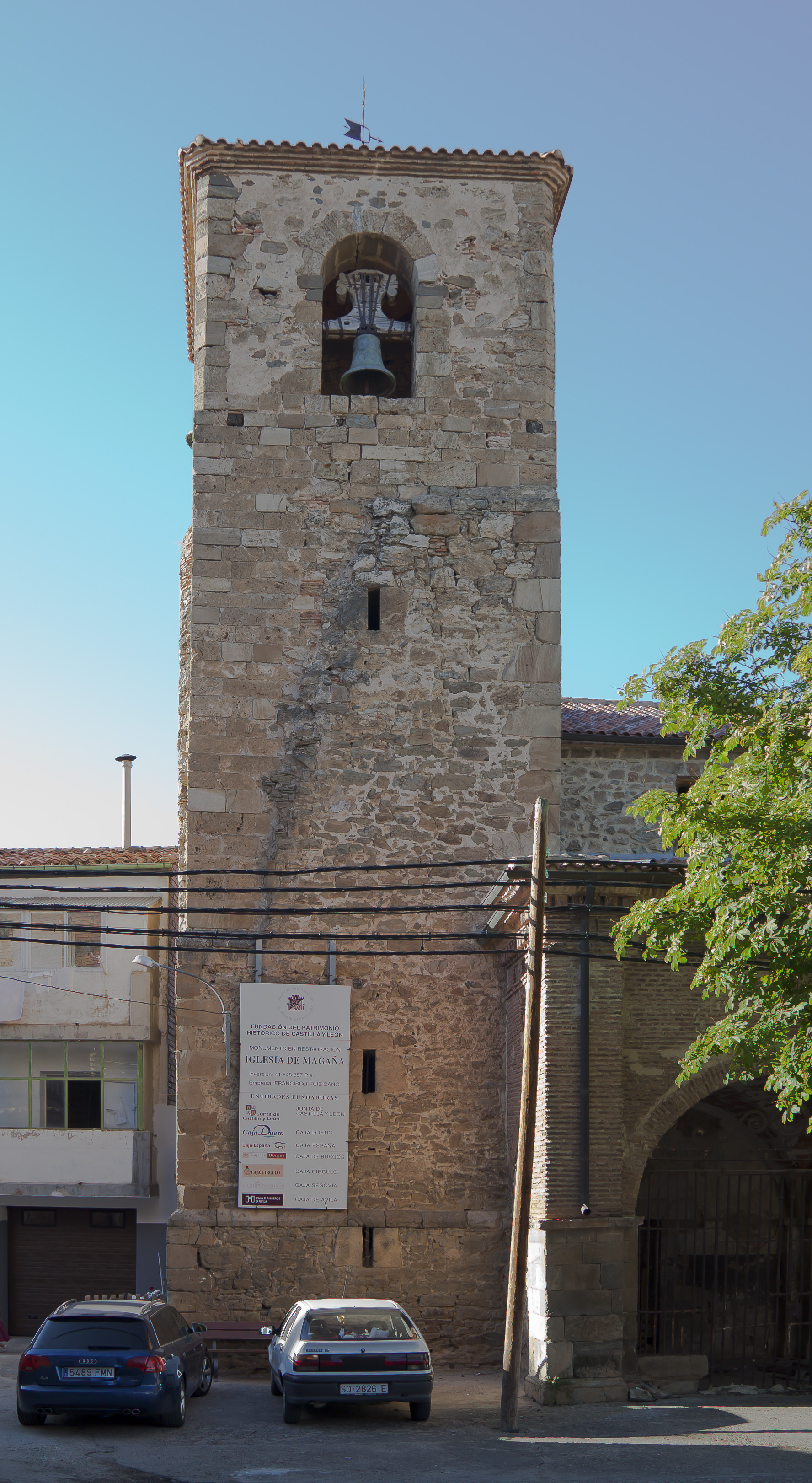 Church of the Virgin of Magaña, Ágreda, Spain